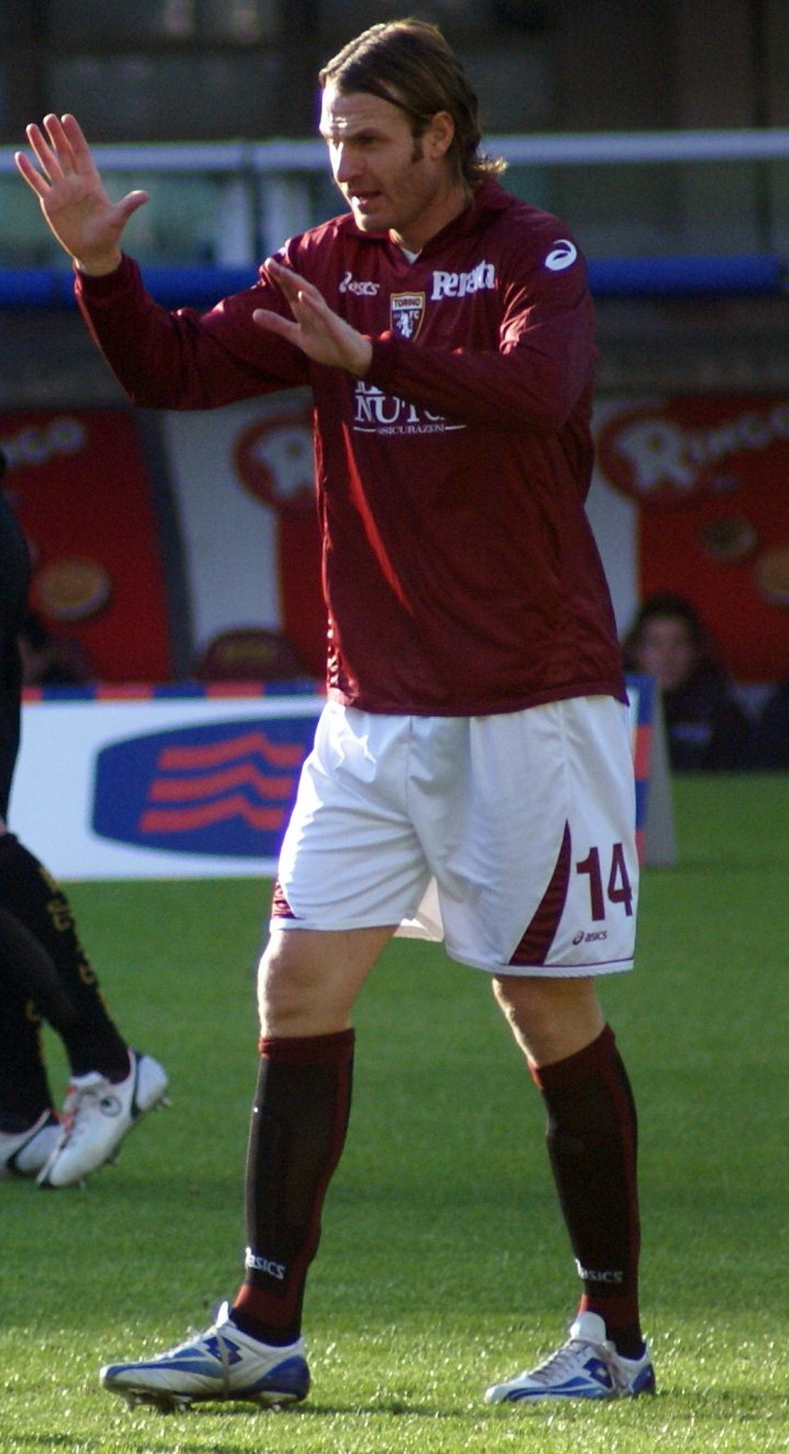 Cesare Natali